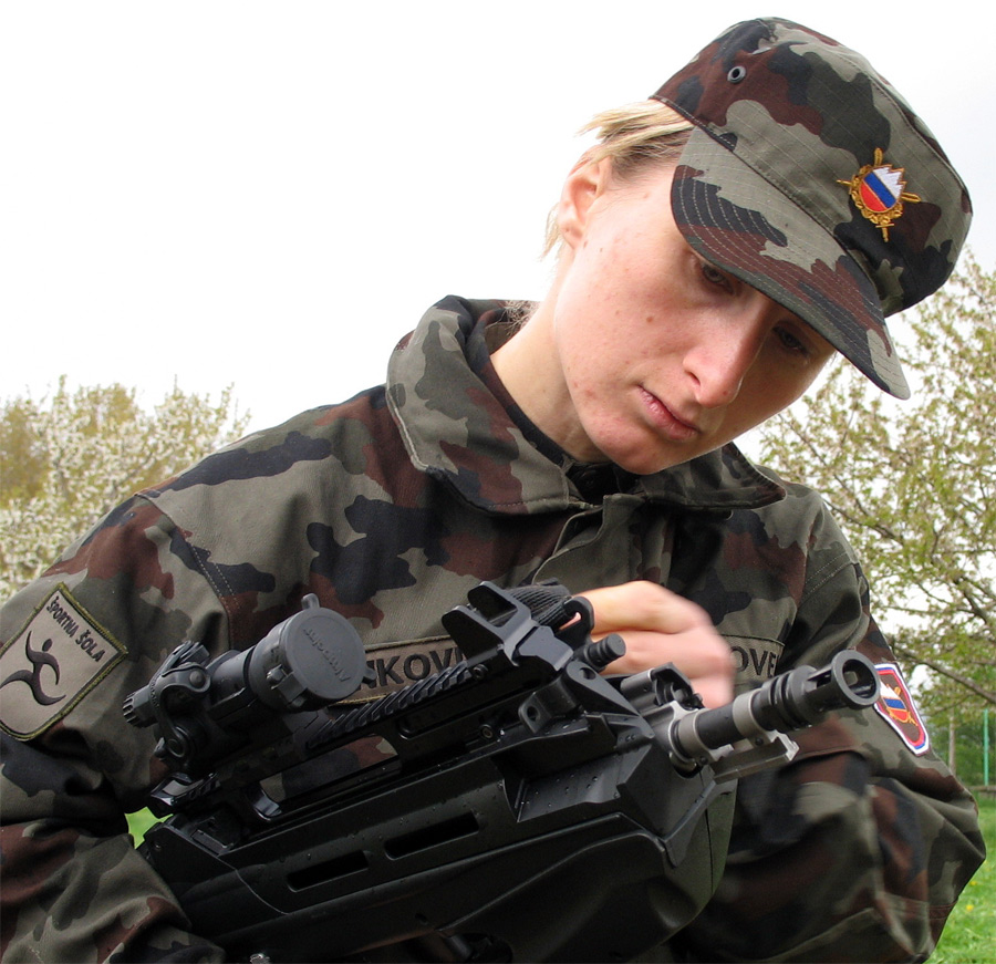 Tadeja Brankovič Likozar in military uniform.